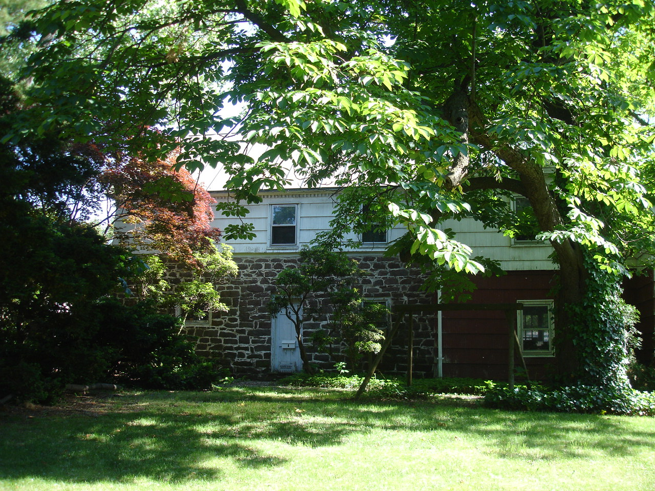 I took this photo myself on May 20, 2010.